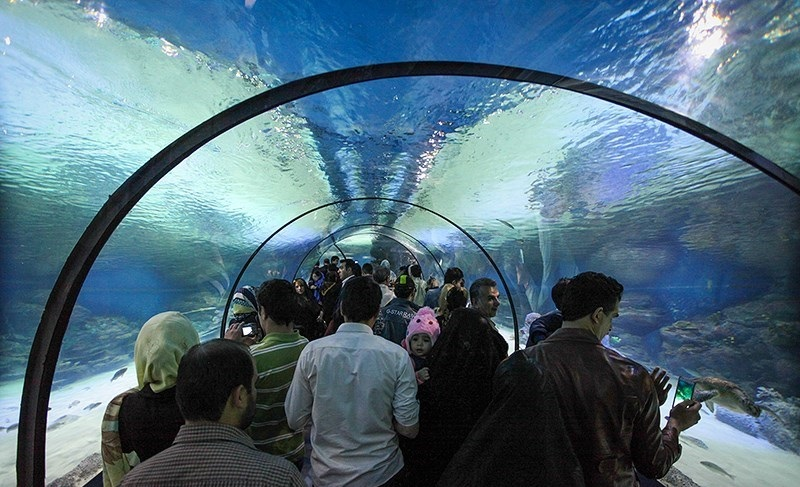 Isfahan aquarium